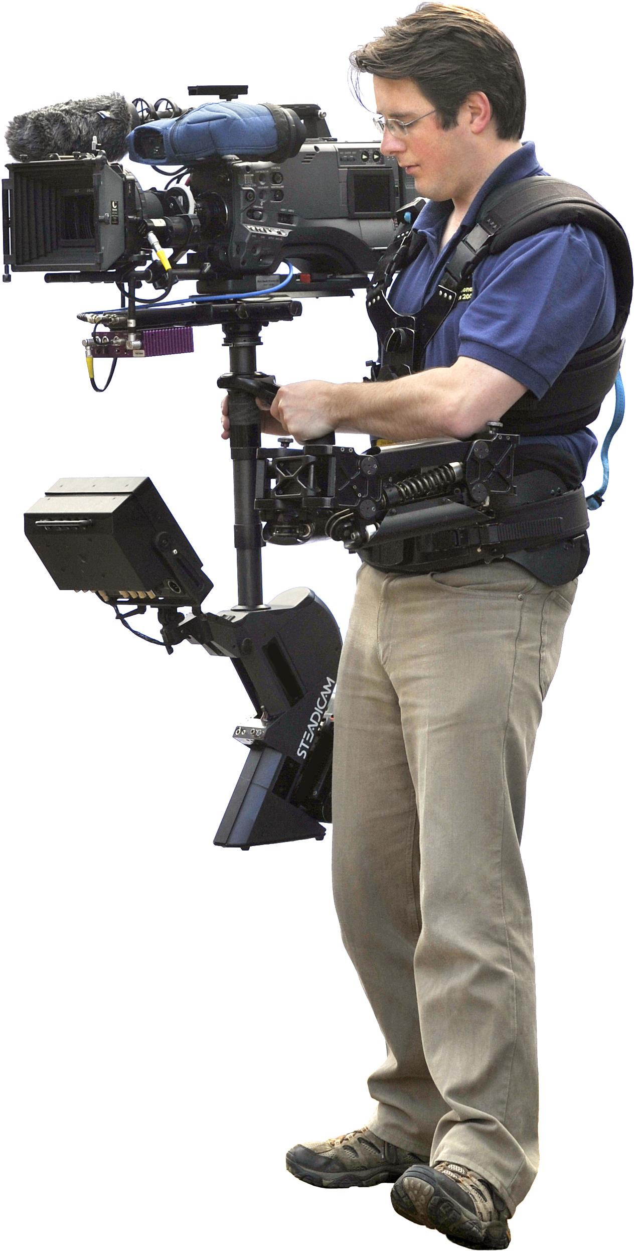 Steadicam Operator John E Fry with a Master Steadicam, Tiffen HD Ultrabrite monitor, Panasonic AG-HPX500 P2 HD camera, Chrosziel matte box and Fujinon lens. Taken in Wiltshire, England UK.